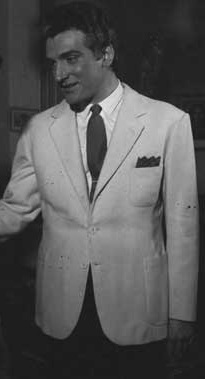 Rodolfo Blasco- actor y director